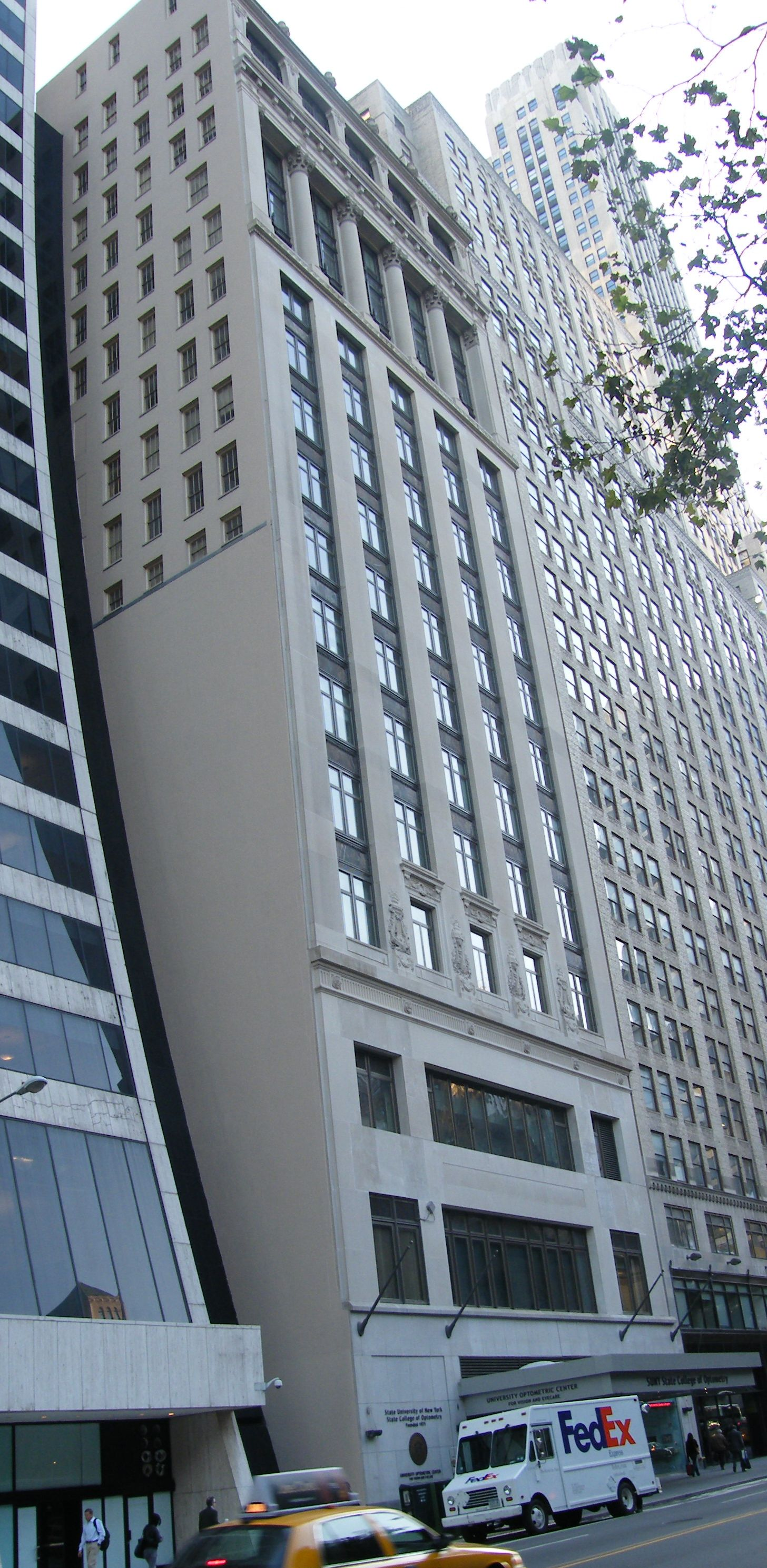 Aeolian Building, 33 West 42nd Street